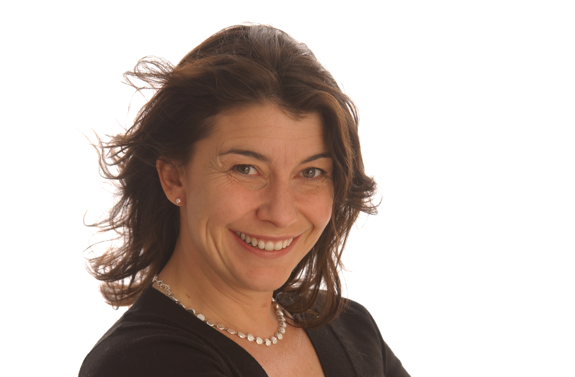 Lorna Yabsley in 2002